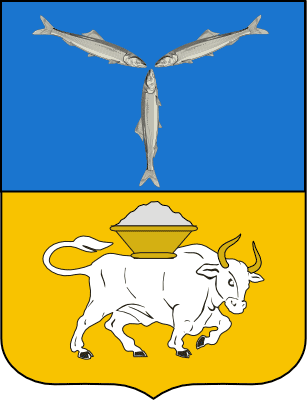 Coat of arms of Engelssky rayon, Saratov Region, Russia